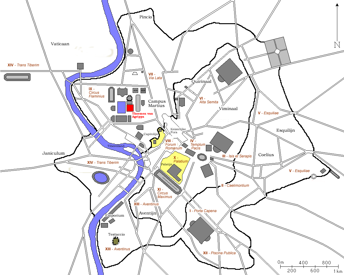 Baths of Agrippa on a map of ancient Rome around 300 AD